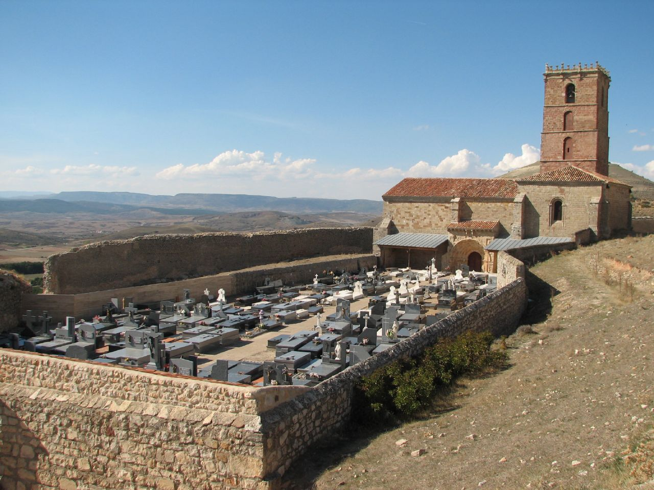 Church of Saint Mary of King, from 11th century, and cemetery of Atienza, Guadalajara, Spain.